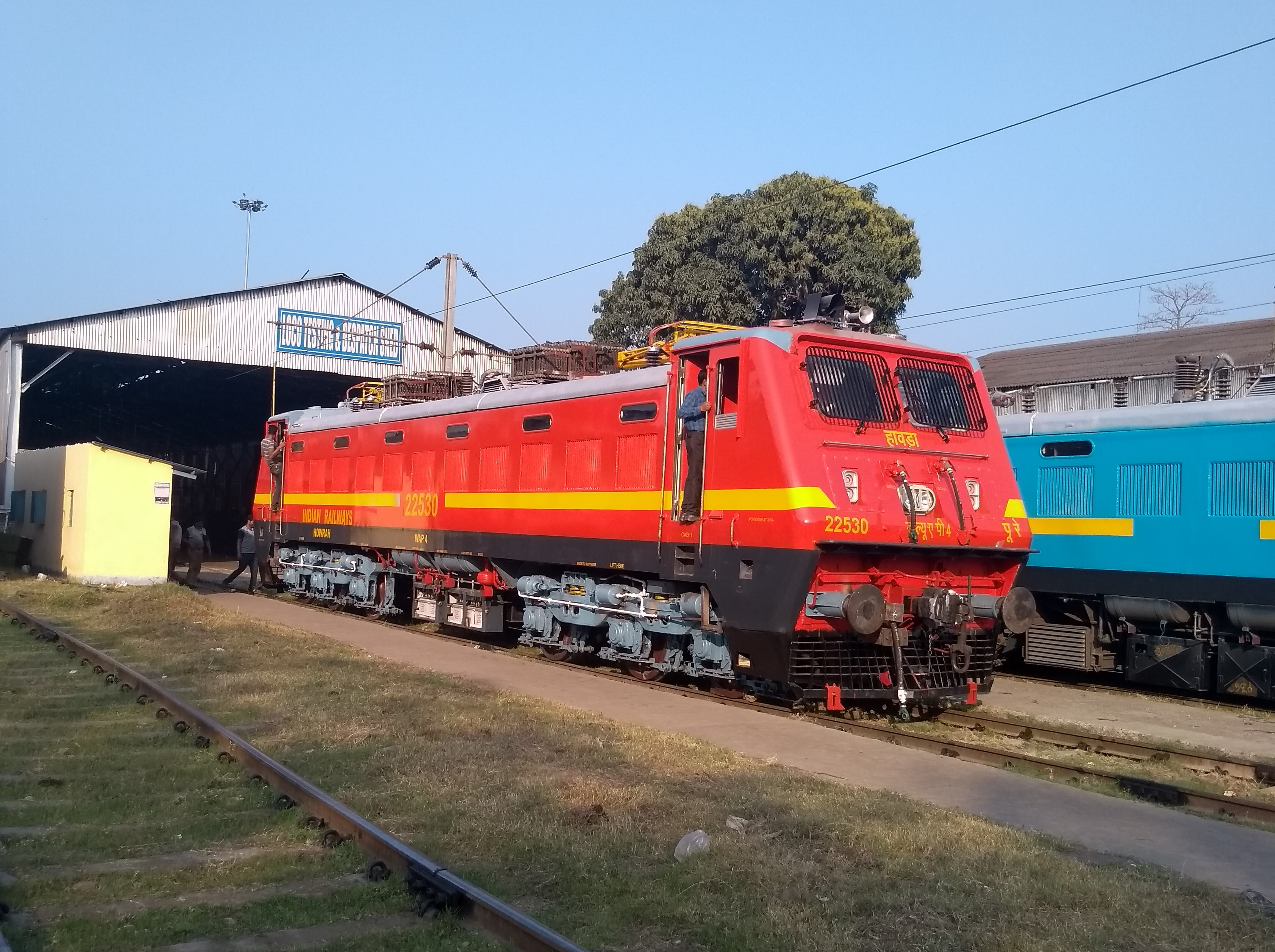 Indian locomotive class WAP4 ready for inspection.